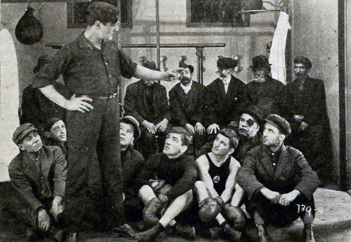 Illustration of a review in The Moving Picture World for the film Temptation and the Man (1916).